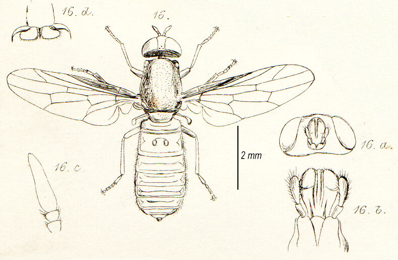 Scenopinus FenestralisInsectaBritannicaDiptera